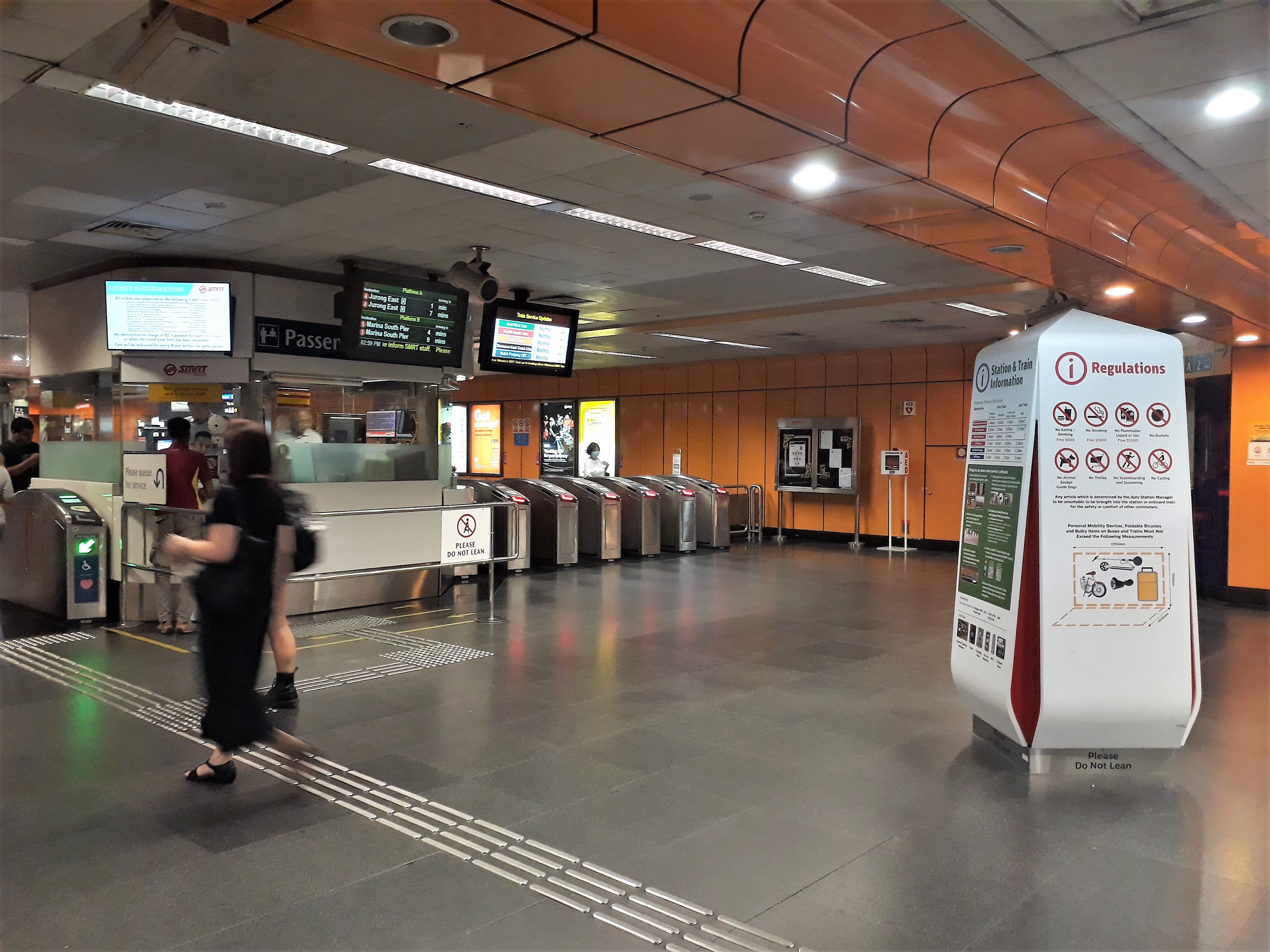 NSL concourse of Newton